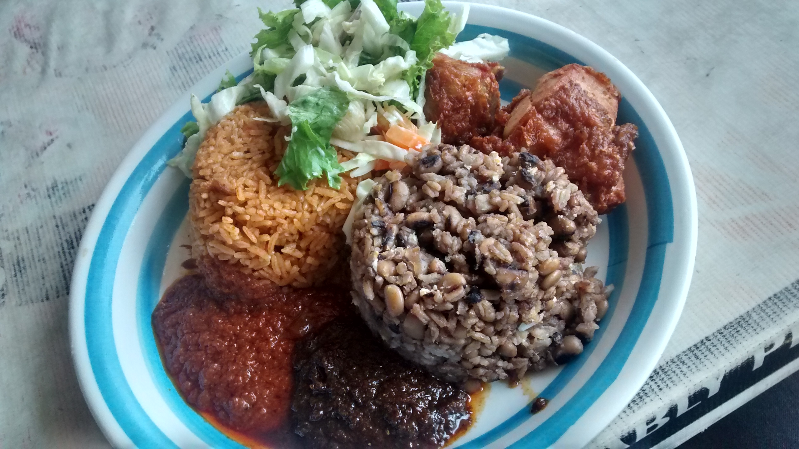 I went to the restaurant and bought mixed Waakye, Jollof Rice, Fried Chiken, Shito Stew plus some Vegetables This is an image of food from Ghana